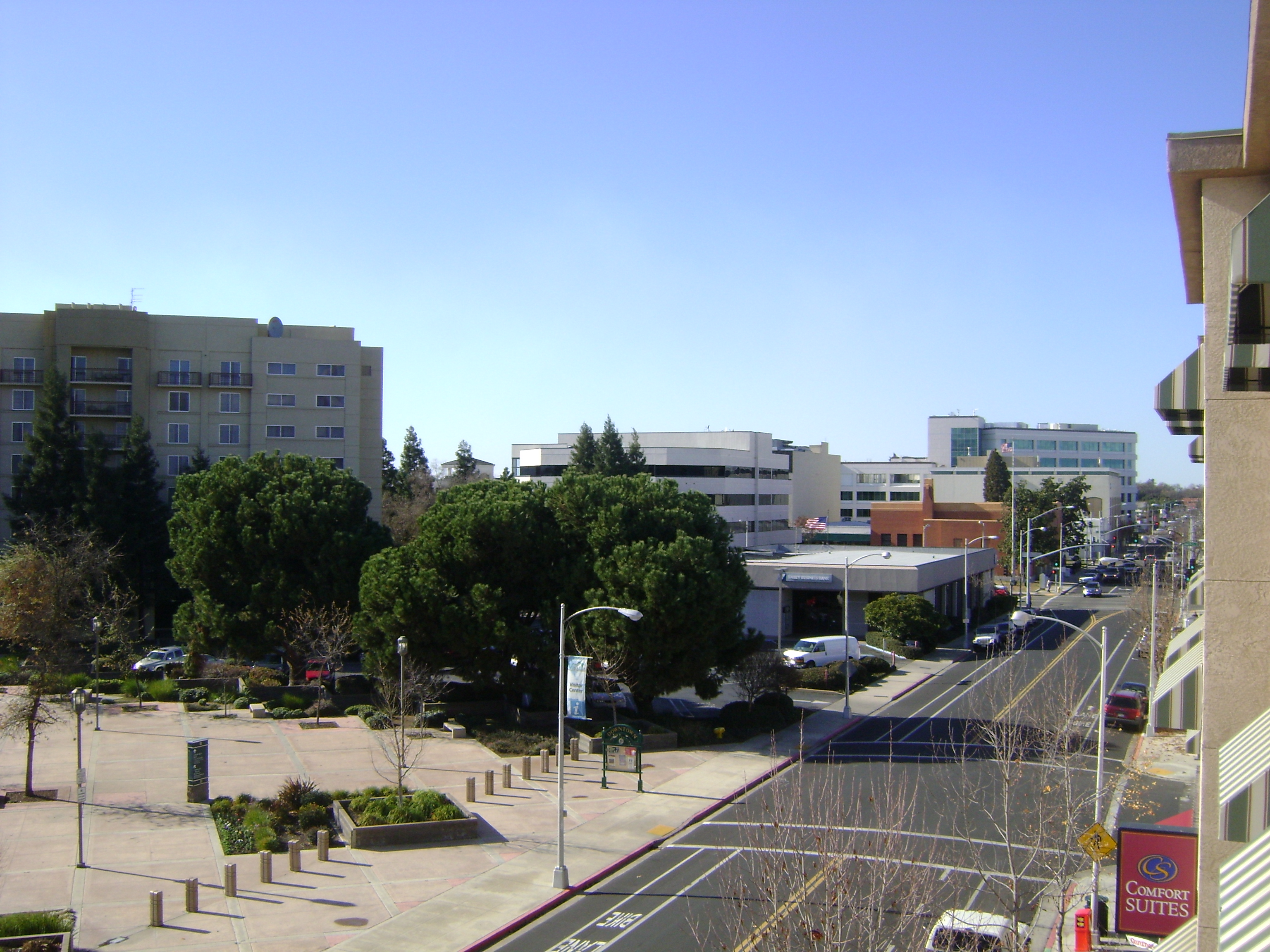 Visalia Acequia Ave.